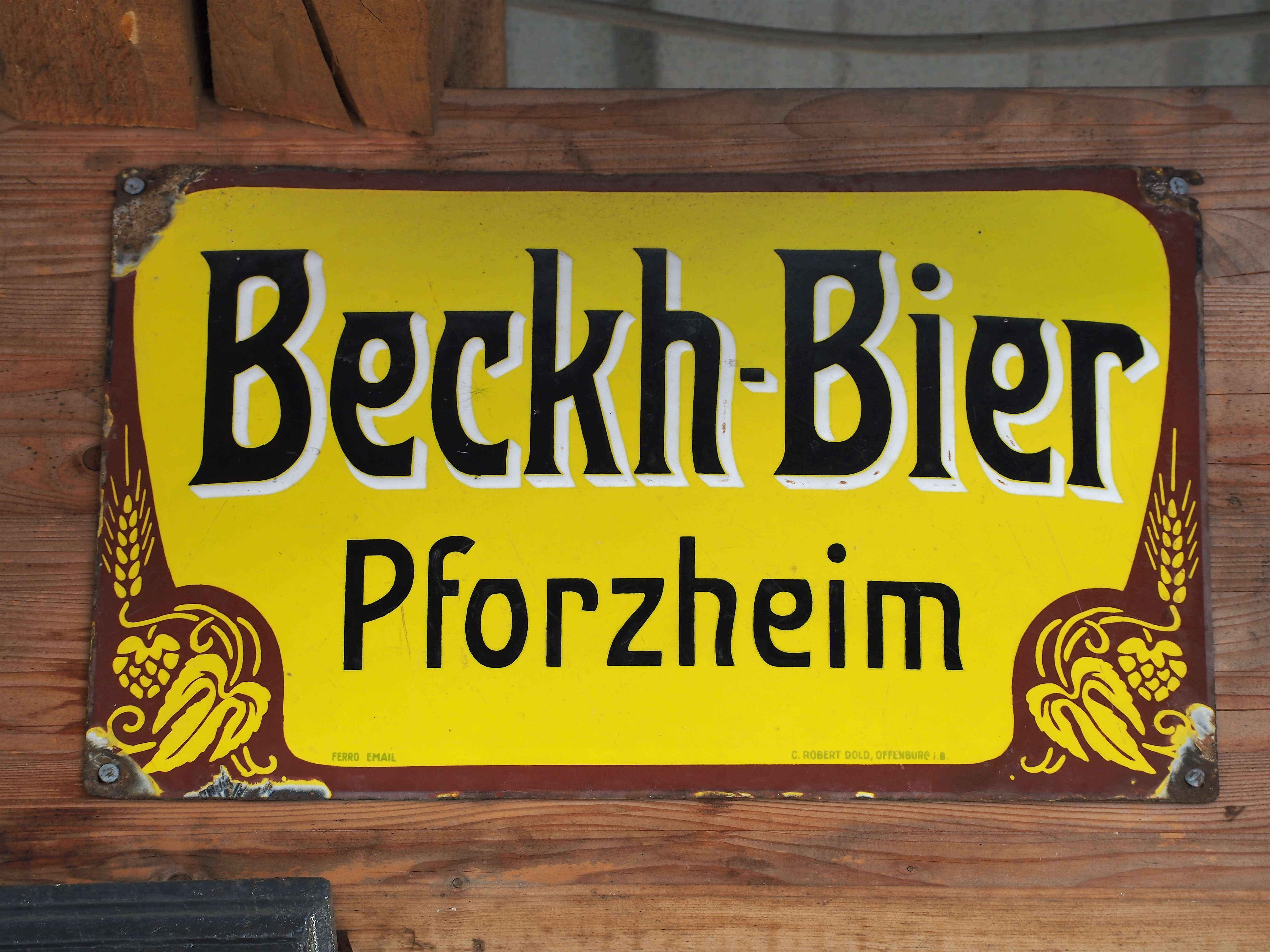 Photo's taken in the Fahrzeugmuseum-Marxzell, Germany.